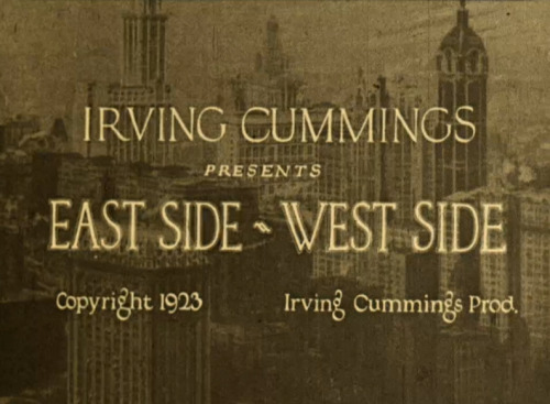 Titlecard for the 1923 silent film, East Side - West Side